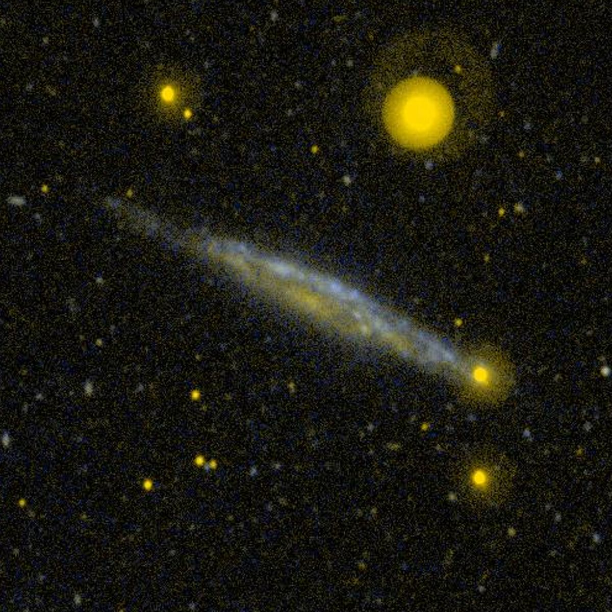 NGC 4157 galaxy by GALEX